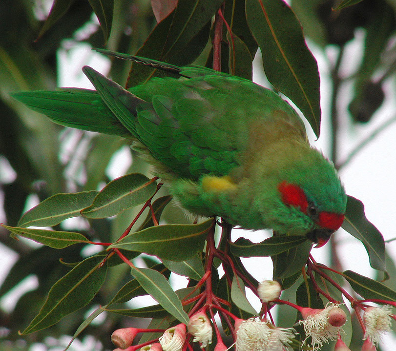 Musk Lorikeet (Glossopsitta concinna) Richmond, Tasmania, Australia